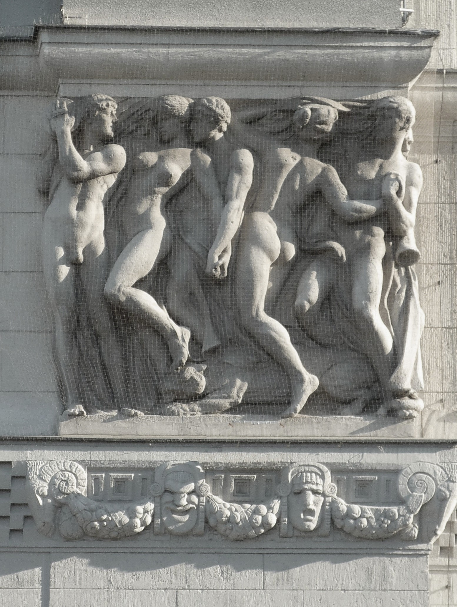 The "Neues Schauspielhaus" (New Playhouse), later on "Metropol", at Nollendorfplatz in Berlin. Detail of the facade.